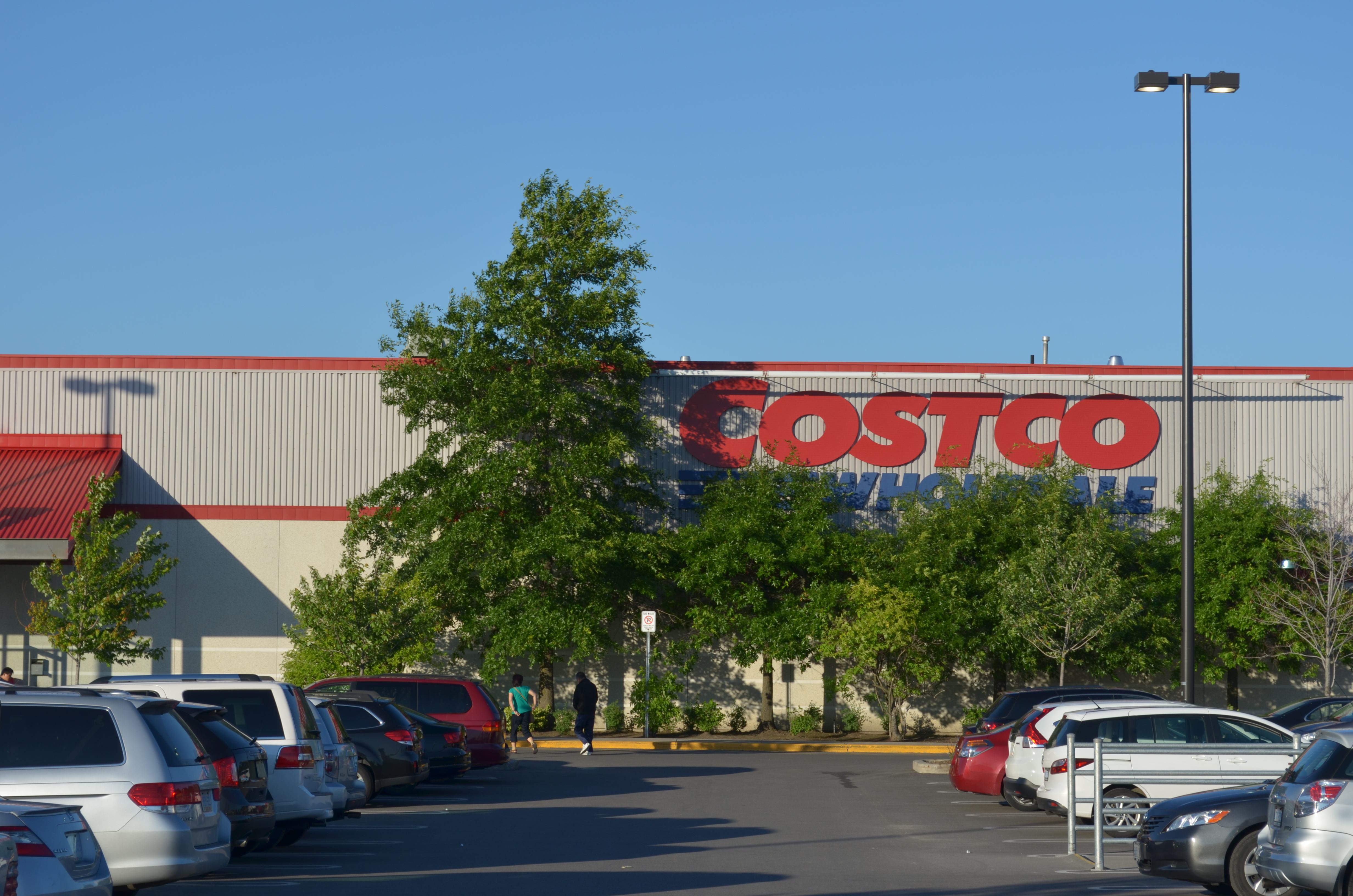 Costco Markham - 1 Yorktech Drive, Markham, Ontario